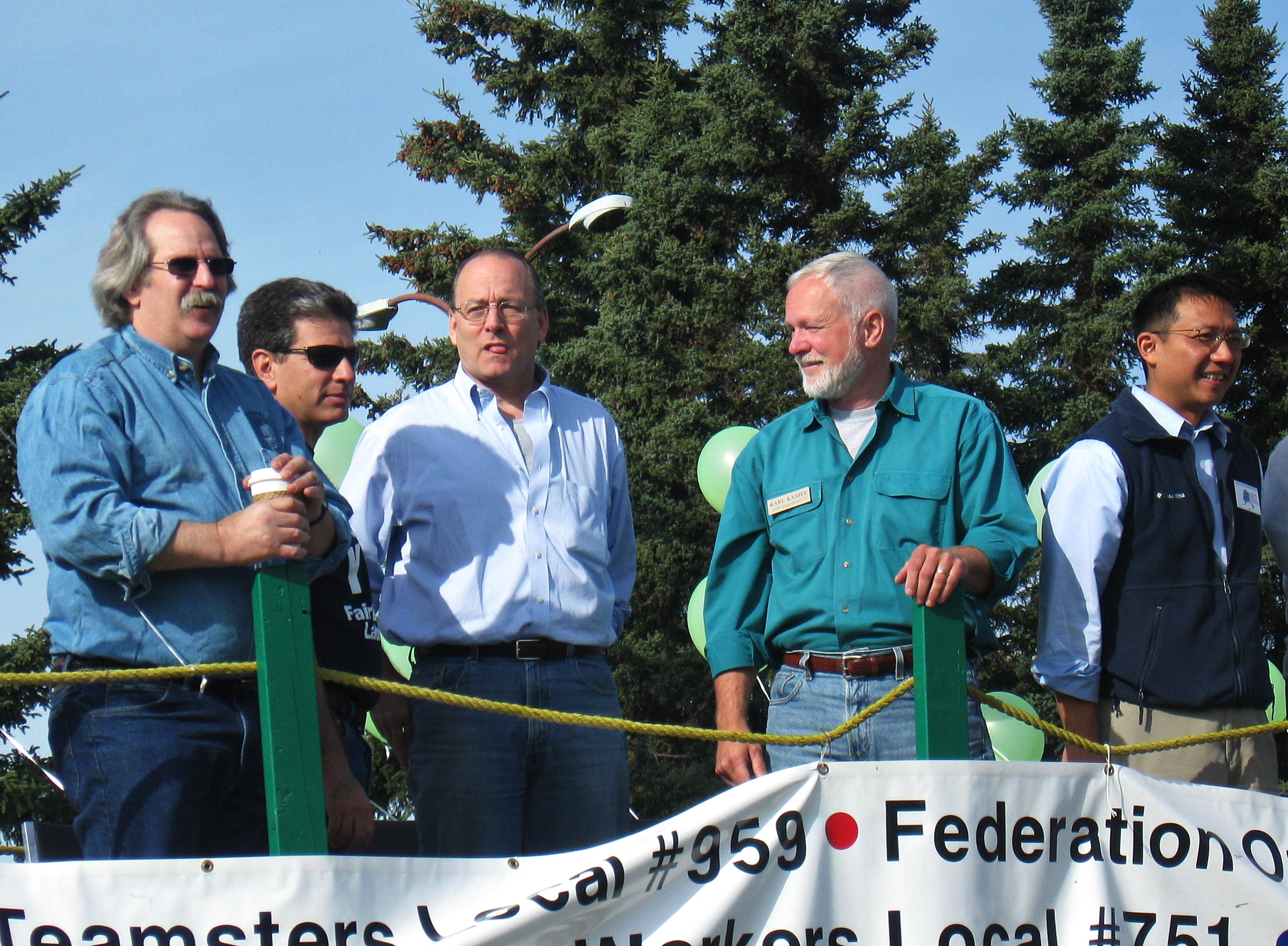 Some of AFL-CIO endorsed candidates on the Fairbanks Labor Day Grandstand. From left: David Guttenberg, Ethan Berkowitz, Jim Whitaker, Karl Kassel and Scott Kawasaki. Torie Foote, at the time an elected official of the Fairbanks North Star Borough, was standing next to Kawasaki in the original photo but has been cropped out here.